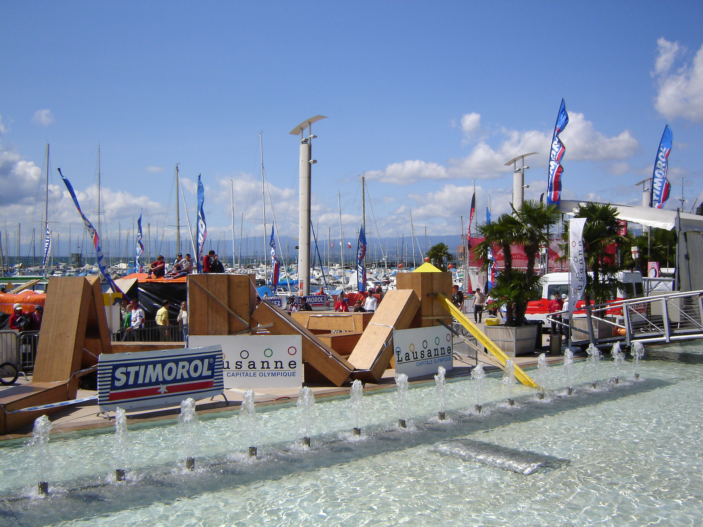 Lausanne-Ouchy during an extreme sports competition